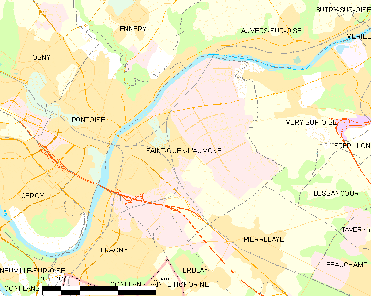 Map of French municipality Saint-Ouen-l'Aumône